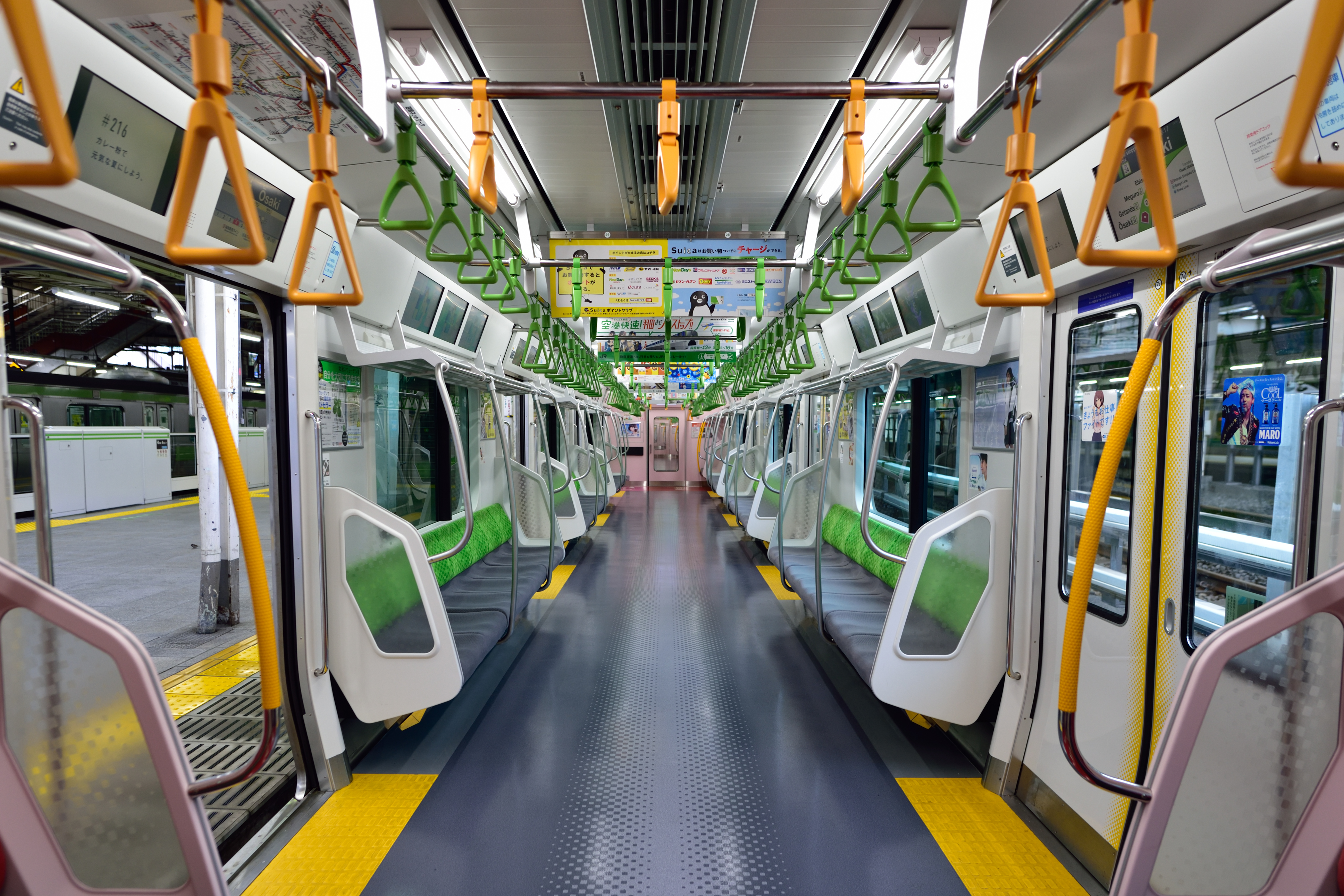 The interior of a JR East E235 series (Yamanote Line full-production set) EMU at Osaki Station in Tokyo, Japan